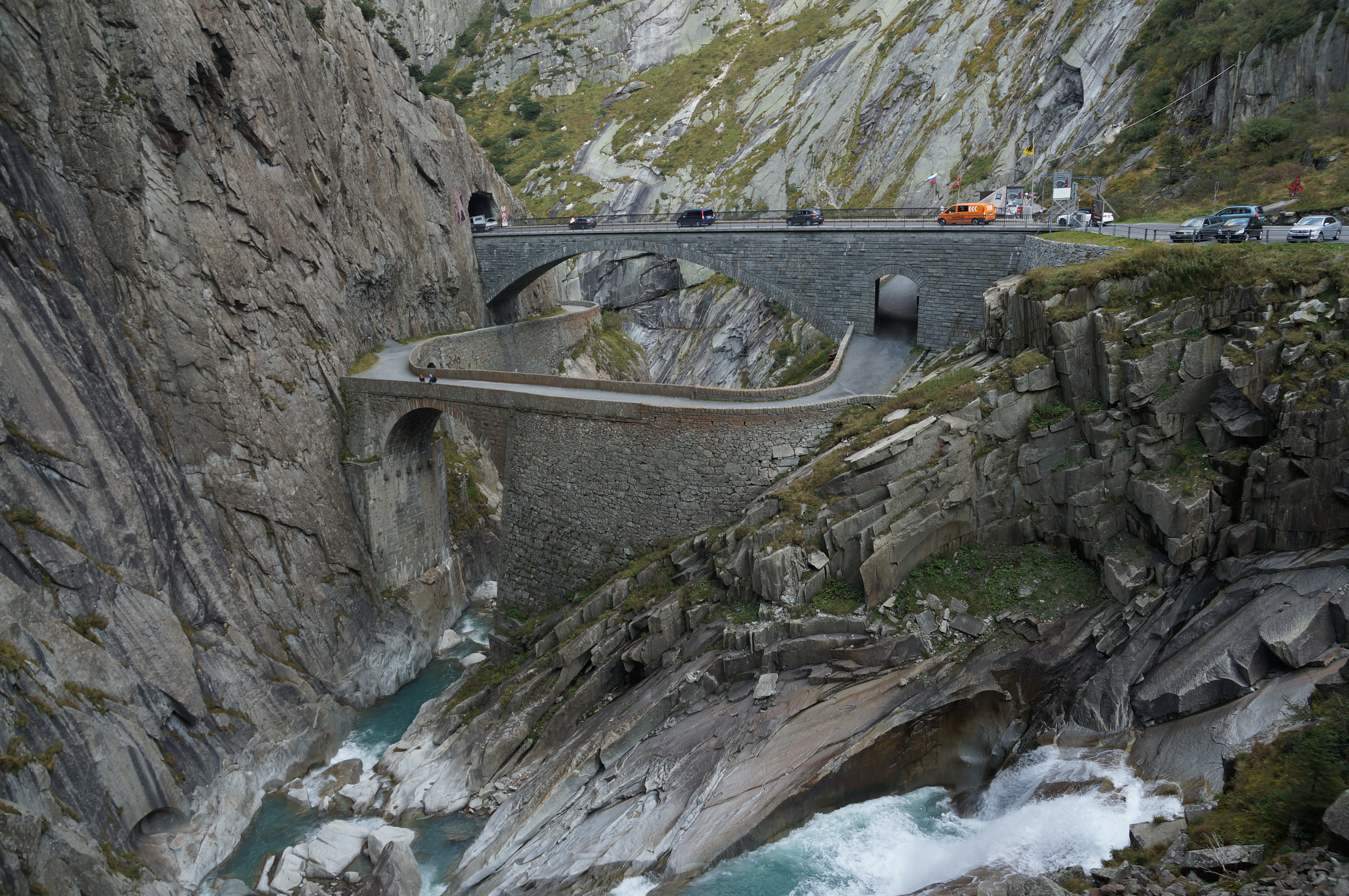 Devil's bridge in the Schöllenen gorge, Canton Uri, Switzerland